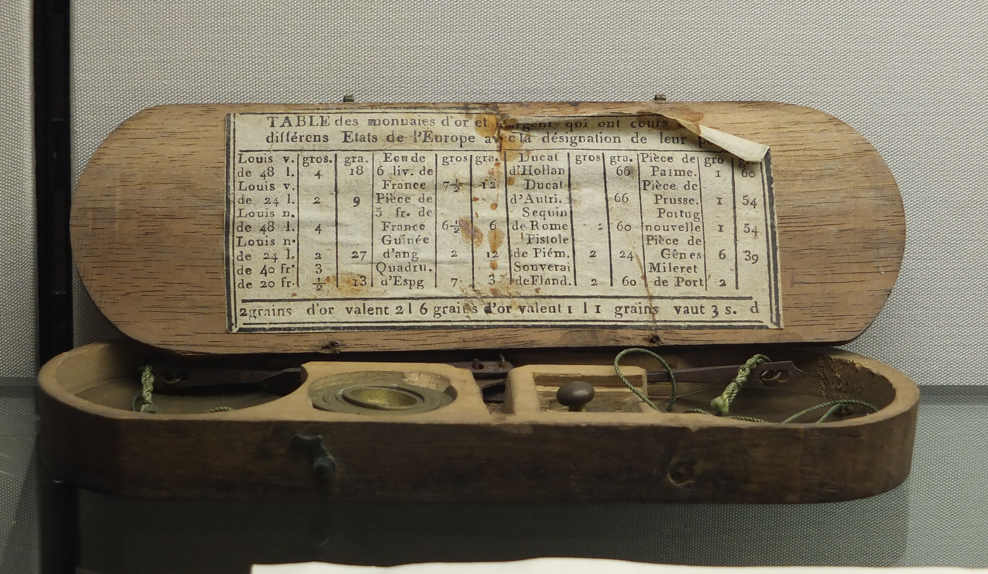 Box with scales and coin weights.Steel and copper 1780-1820. Donation by mrs. Marie-Sylvie De Paepe SMD inv. 2006.17.2. Museum Vleeshuis, Dendermonde.